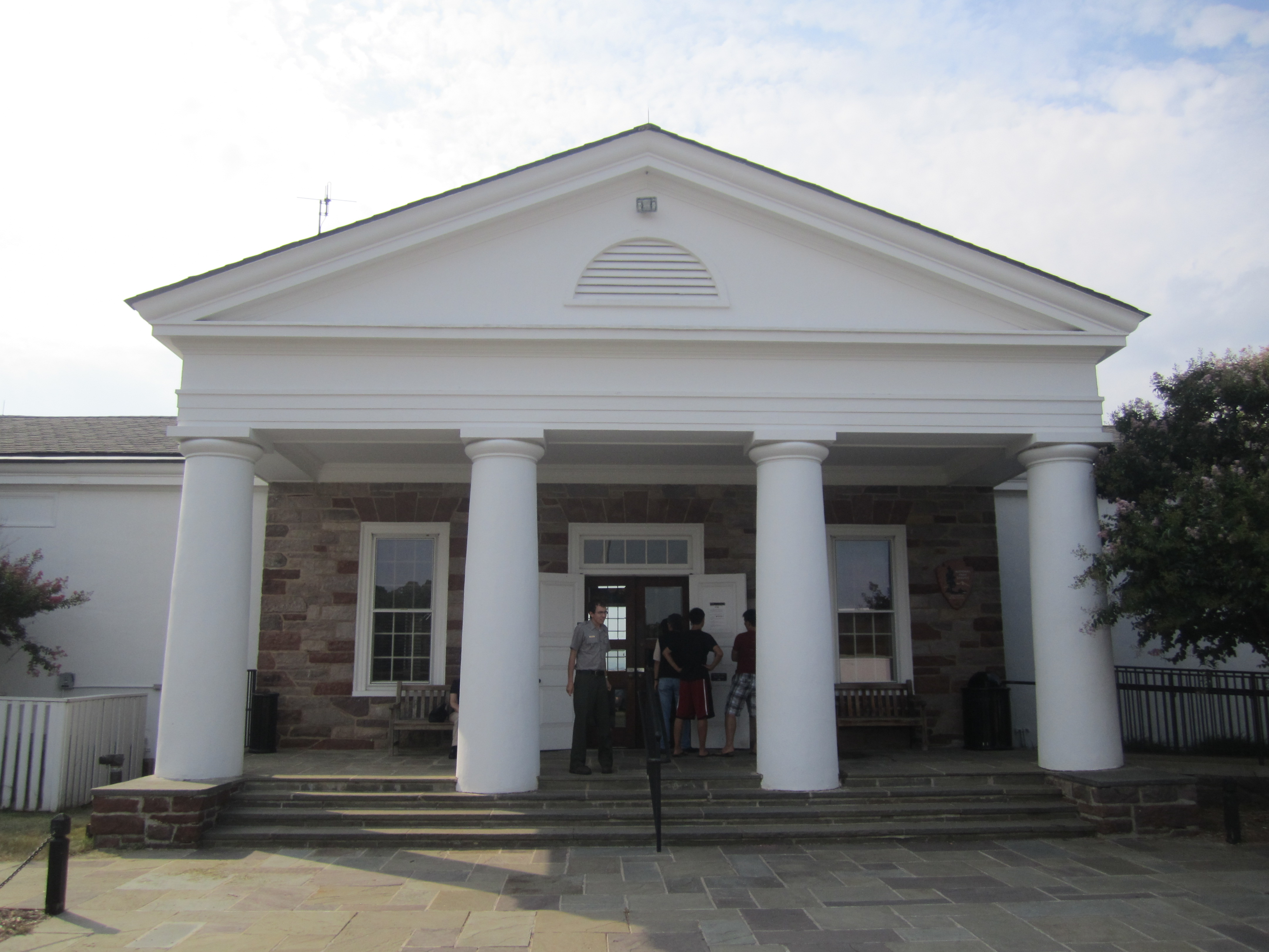 I took photo with Canon camera of entrance to Visitor Center at Manassas Battlefield Park in VA.